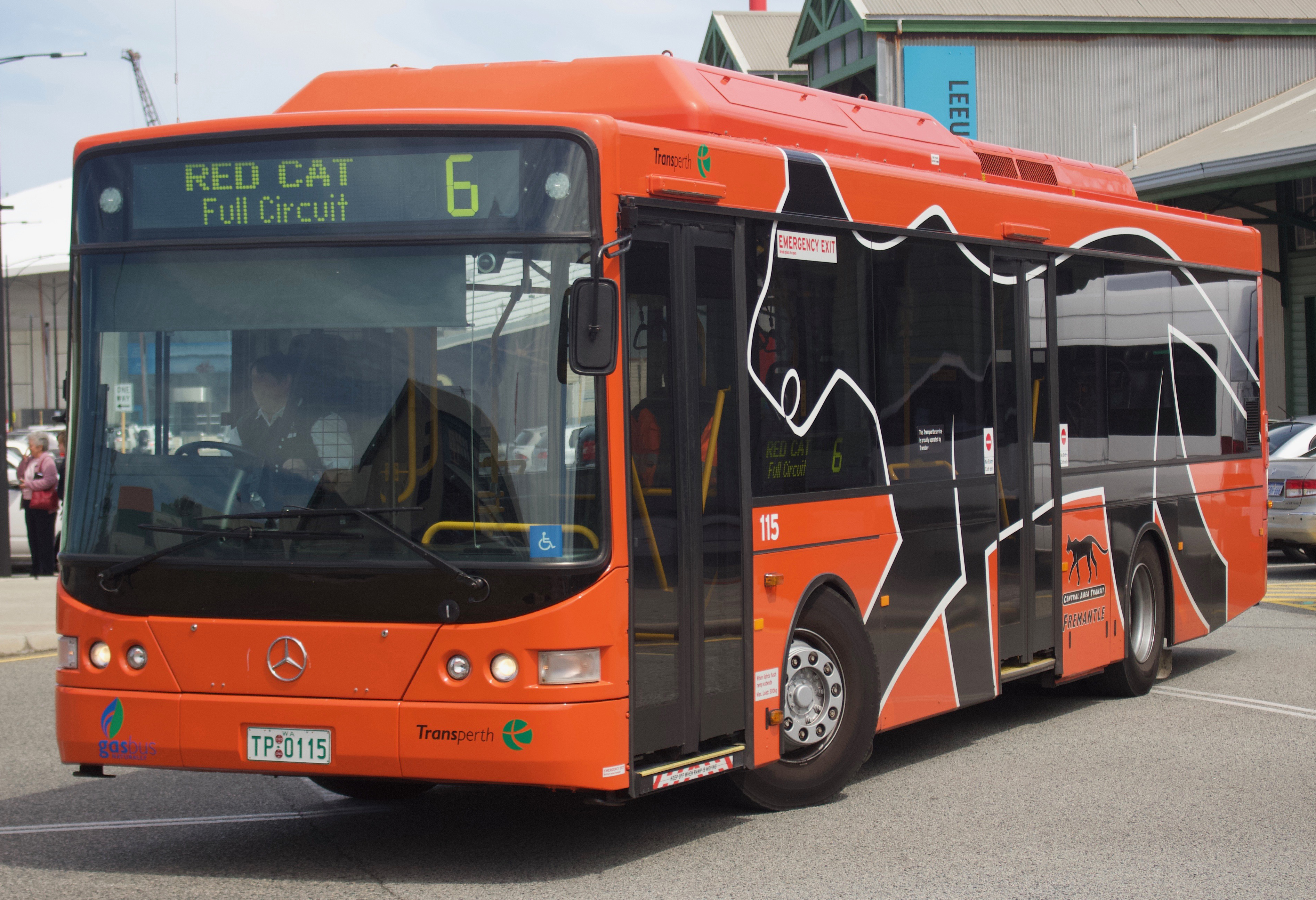 2006 Volgren CR228L bodied Mercedes-Benz OC 500 LE CNG (#115 TP0115, built, 2006) operating on a route 6 red CAT.